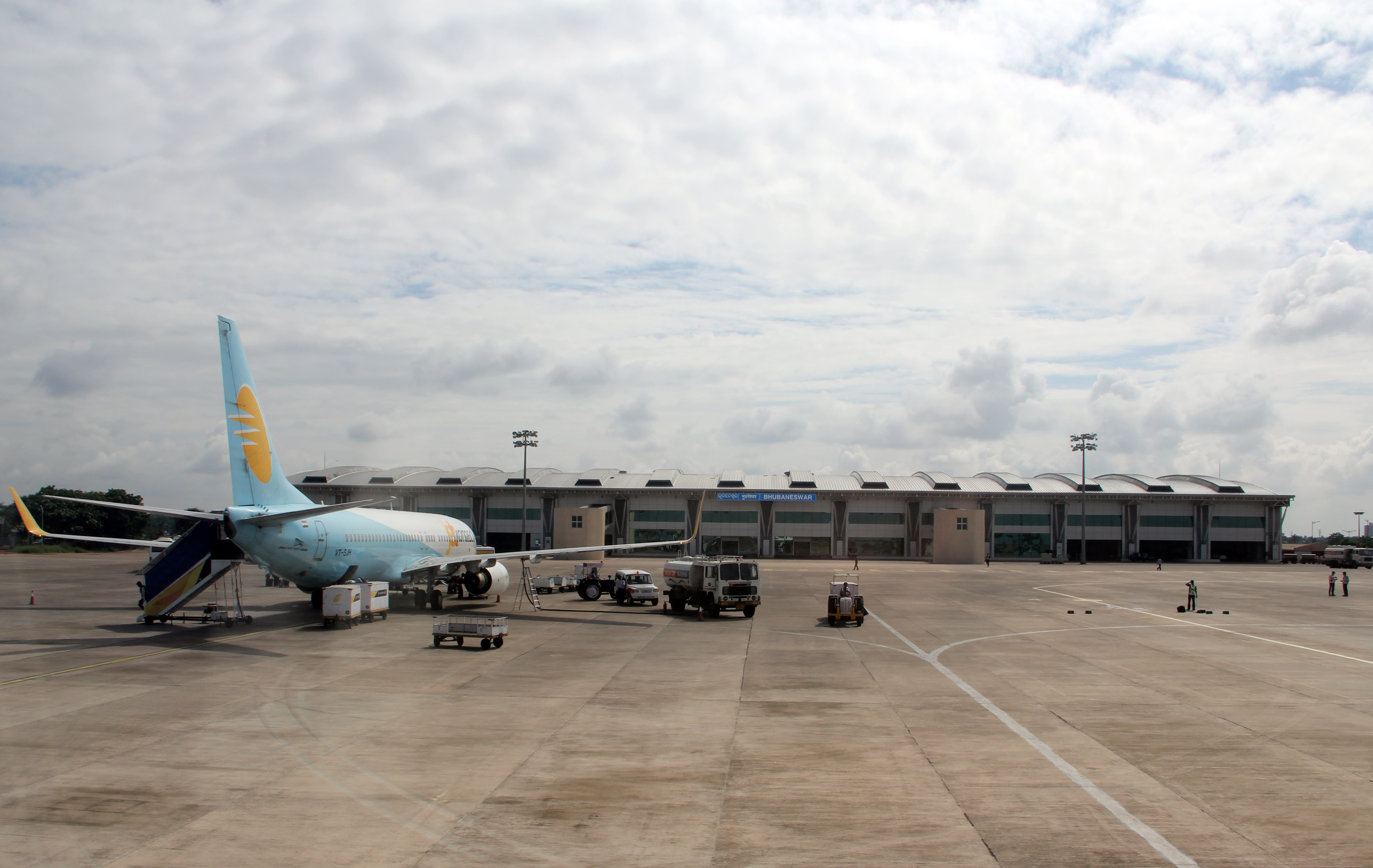 JetLite Boeing 737-800 (VT-SJH) at Biju Patnaik International Airport (BBI), Bhubaneswar, Odisha This media file is uploaded with Odia loves Wikipedia